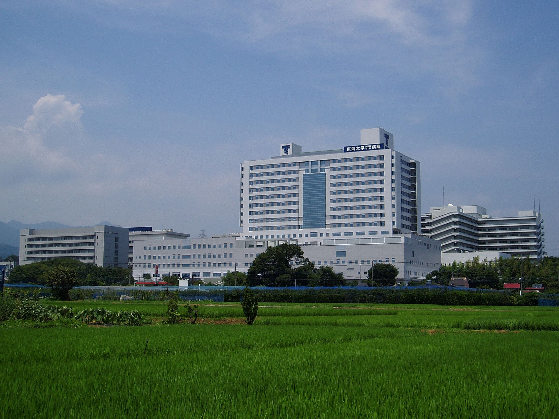 Tokai University Hospital